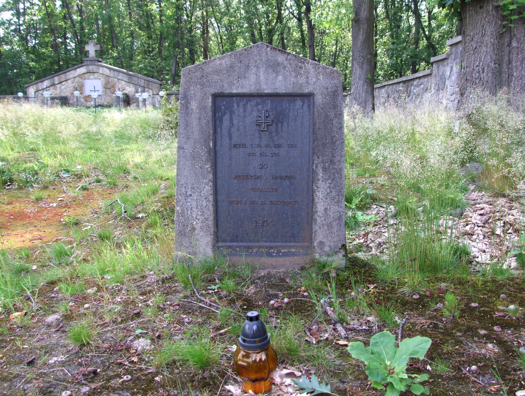 World War I Cemetery nr 303 - Rajbrot